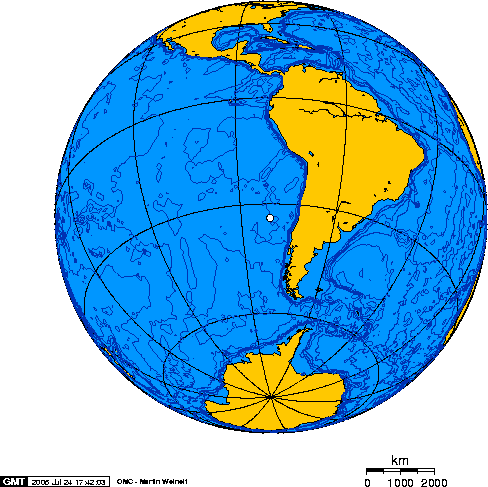 Orthographic projection centred over Juan Fernandez